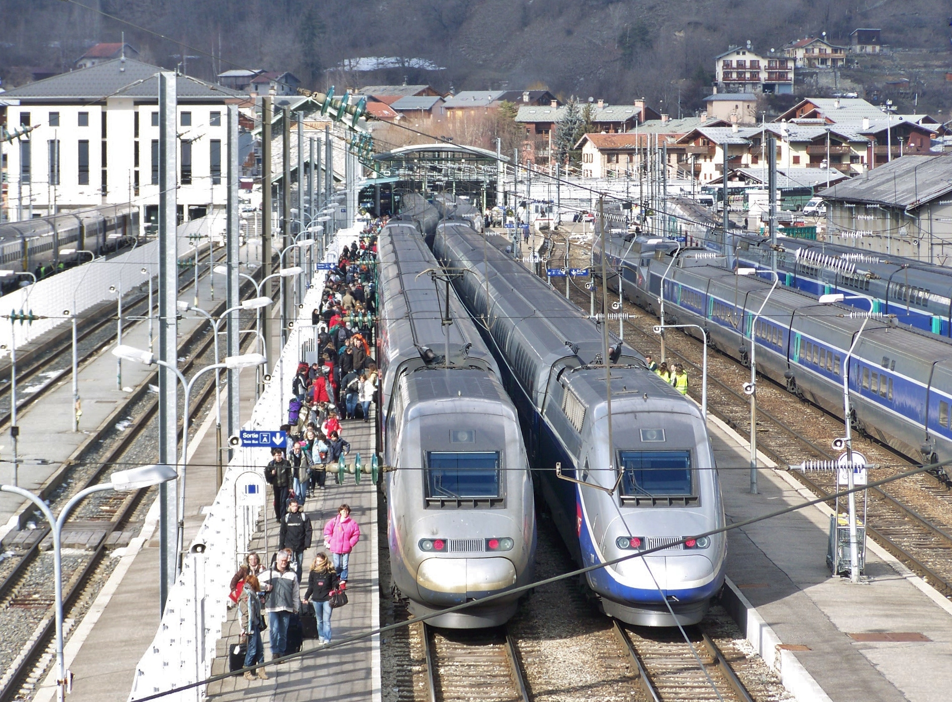 Sight of French TGV high speed train, stopped at Bourg-Saint-Maurice station in the Alps of Savoie during winter holidays.